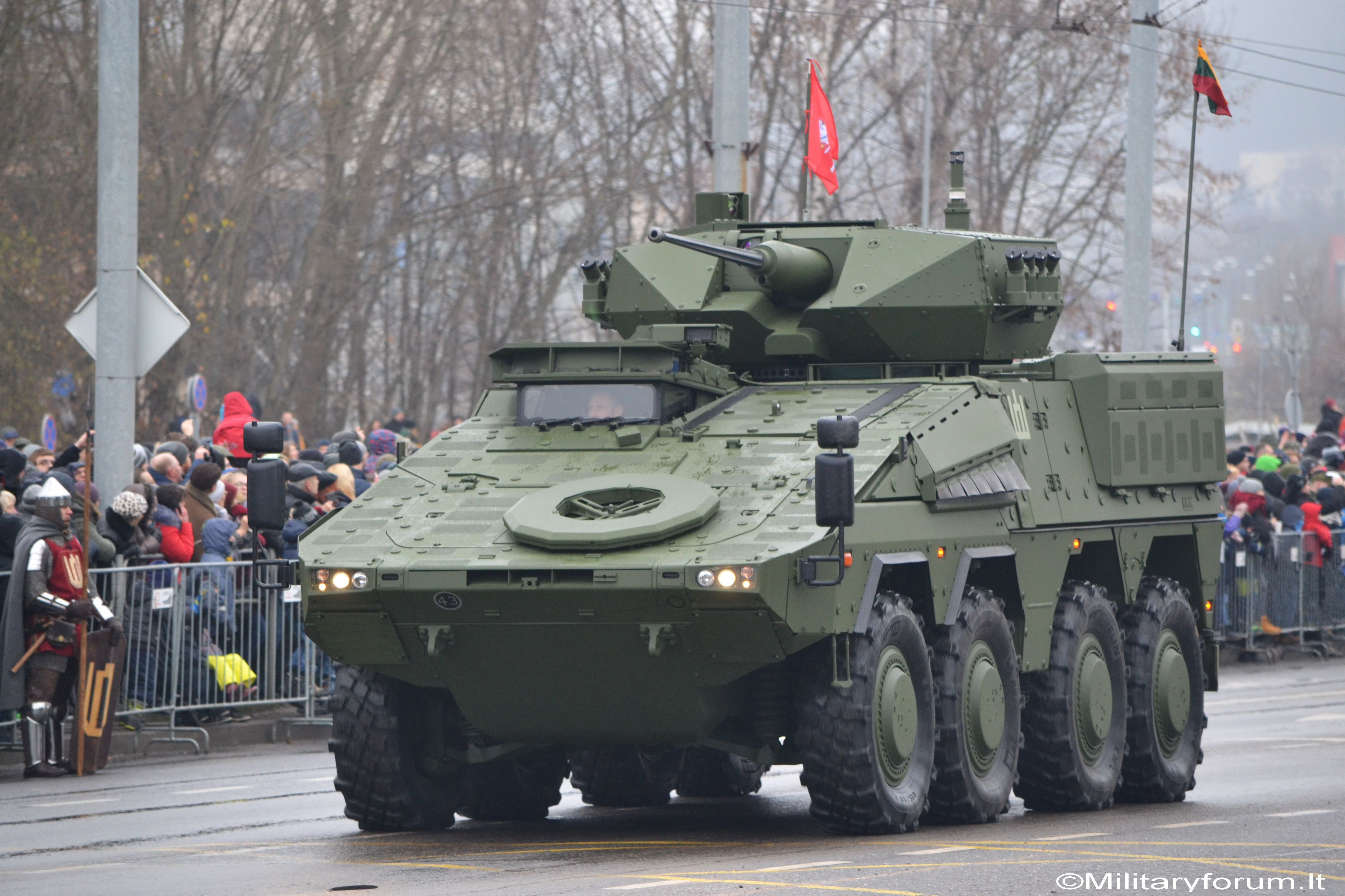 IFV "Vilkas"